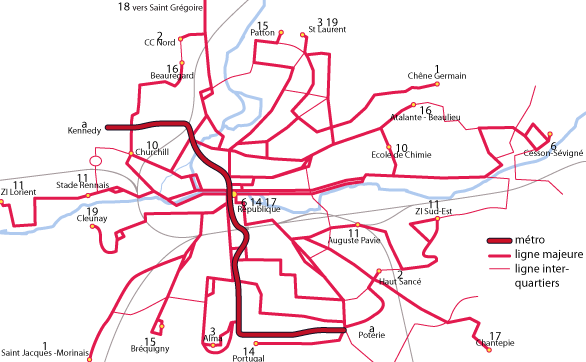 Bus and metro system in Rennes, 2008